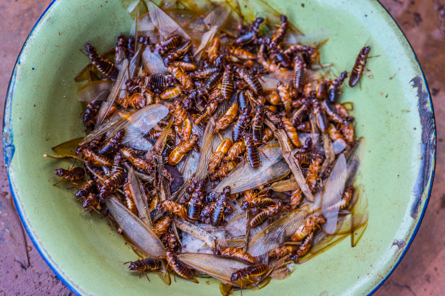 These flying ants come out during the early days of the rainy season (around December) This is an image of food from Mozambique